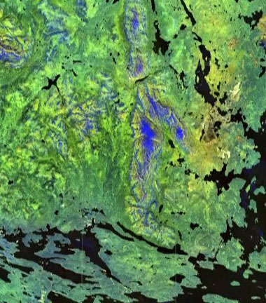 Lapland Biosphere Reserve. Lake Imandra runs along the eastern and southern edge of the photo; Lake Moncheozero is in the north.